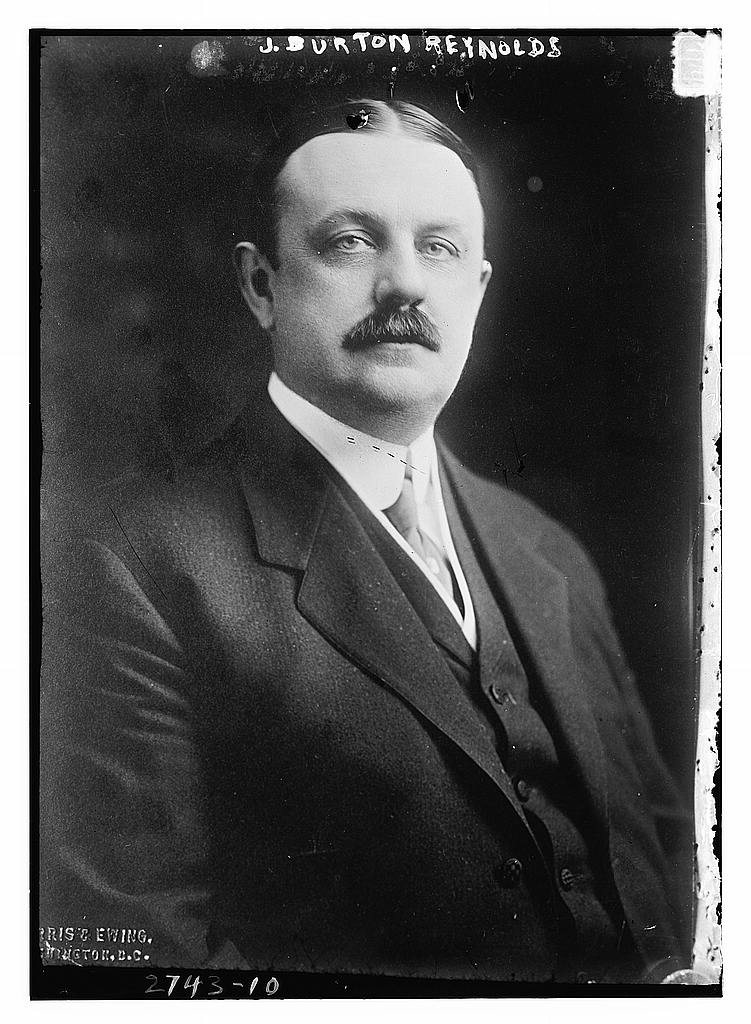 Bain News Service,, publisher. J. Burton Reynolds [no date recorded on caption card] 1 negative : glass ; 5 x 7 in. or smaller. Notes: Title from unverified data provided by the Bain News Service on the negatives or caption cards. Forms part of: George Grantham Bain Collection (Library of Congress). Format: Glass negatives. Repository: Library of Congress, Prints and Photographs Division, Washington, D.C. 20540 USA, General information about the Bain Collection is available at Persistent URL: Call Number: LC-B2- 2743-10